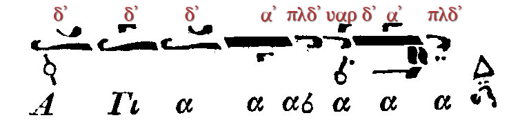 Current enechema of echos tetartos